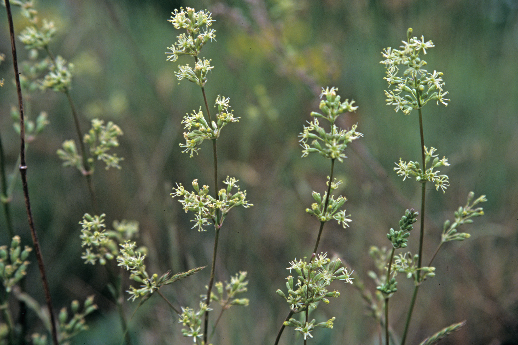 Silene otites (L.) Wib. - inflorescence. Czech Republic, Radobyl